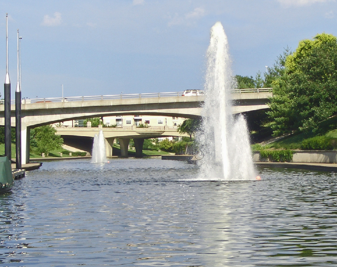 Fountains in Brush Creek, Country Club Plaza district, Kansas City, Missouri